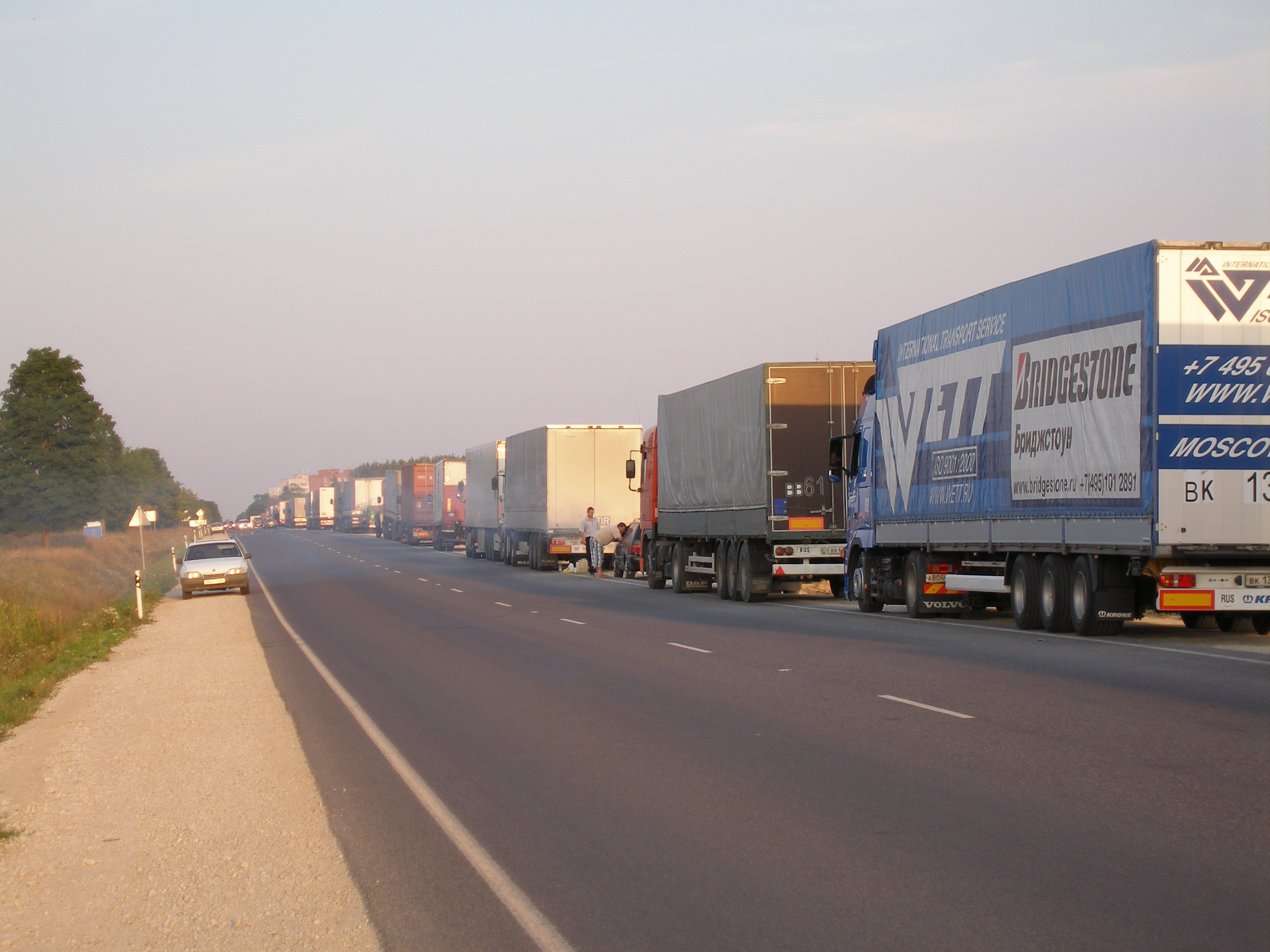 Trucks near the Estonian town of Narva waiting to cross the border to Russia.